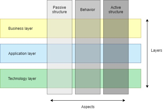 Depiction of Archimate 3.0.1 Core Framework.